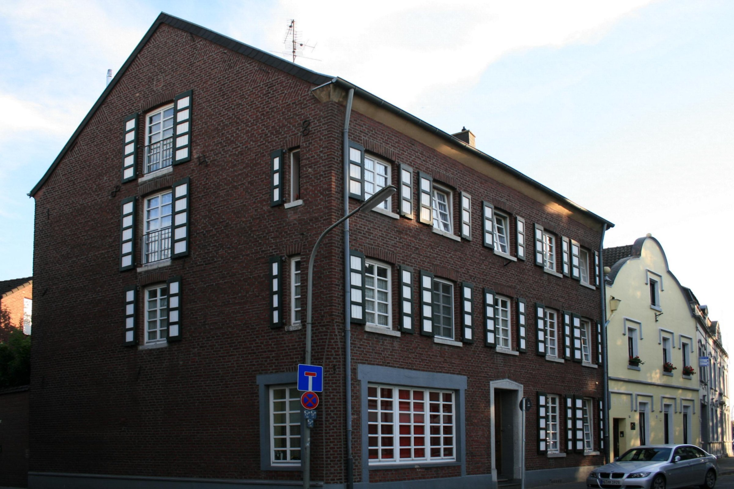 Cultural heritage monument No. B 025 in Mönchengladbach